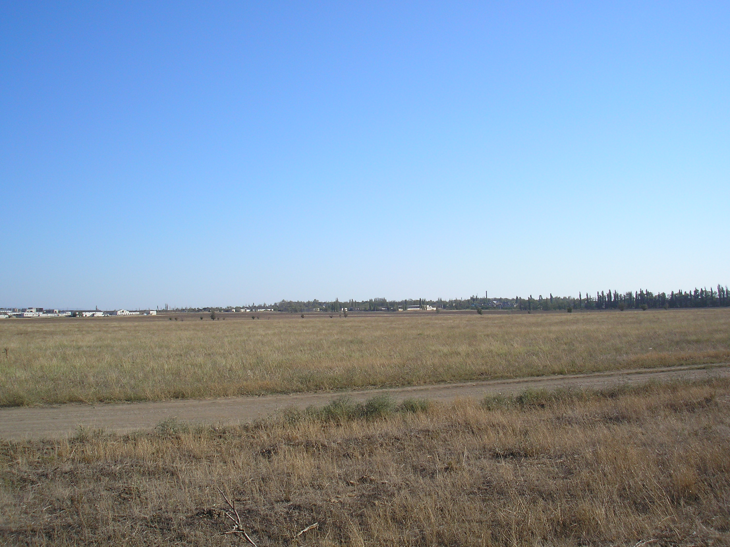 Village Tabachnoe, Bakhchisaray district, Crimea